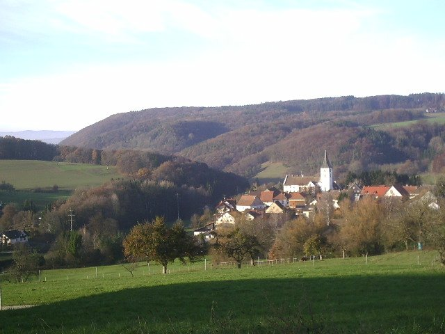 Bühl (Klettgau)